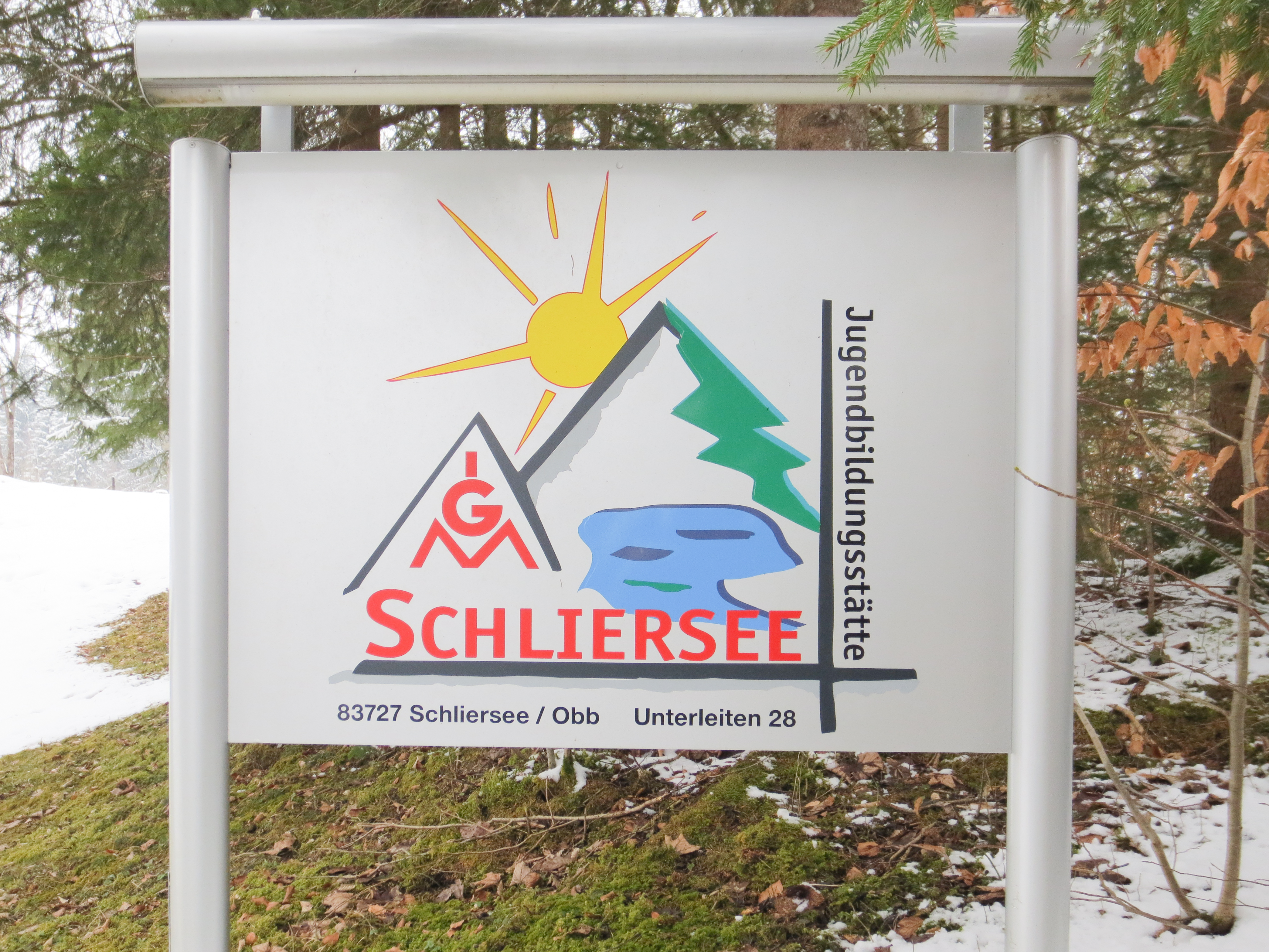 The youth educational center of the german trade union IG Metall in Schliersee. The entrance sign.